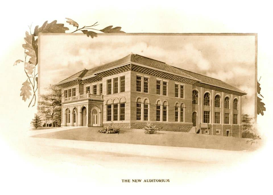 An artist's rendering of the Miami University Auditorium done sometime before its construction in 1907.